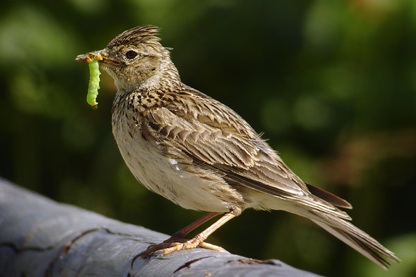 Skylark (Alauda arvensis) with a caterpillar in its beak.